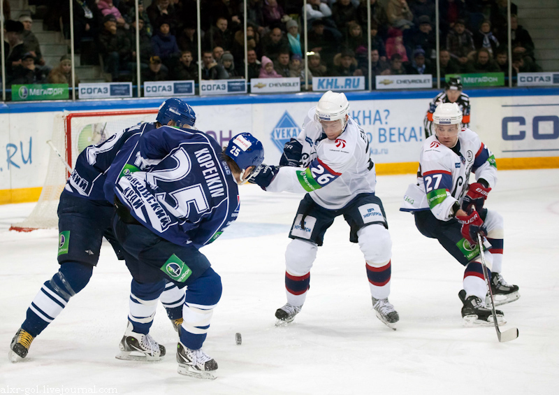 KHL game HC Sibir Novosibirsk vs. Amur Khabarovsk on December 4, 2011. HC Sibir players in white: Jonas Enlund (#26), Vyacheslav Belov (#27).